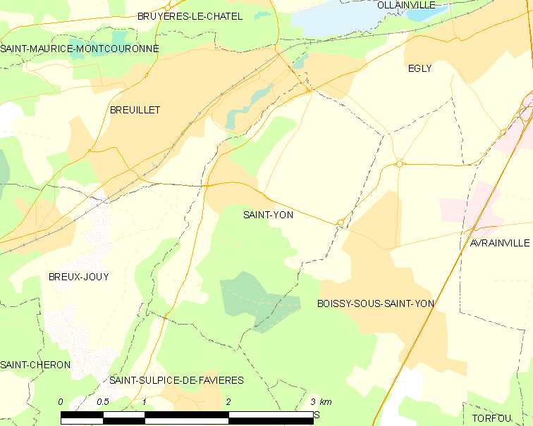 Map of French municipality Saint-Yon